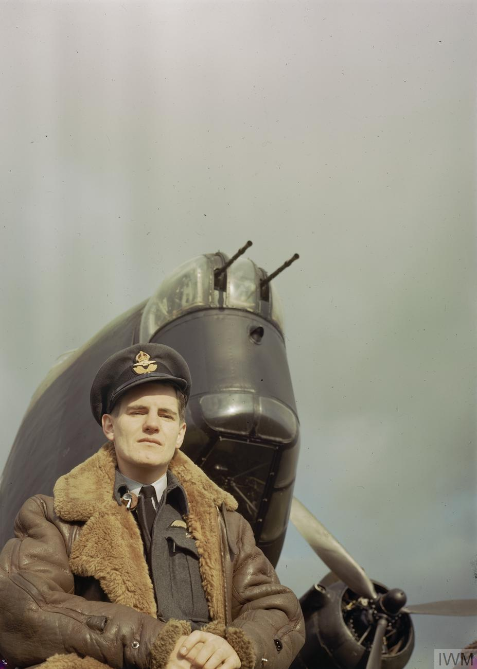 Bomber Pilots of the Royal Air Force, October 1943 Flight Lieutenant Douglas Alaric Boards, Captain of No. 15 Squadron, Royal Air Force Short Stirling EH930, `LS-A', standing in front of the aircraft at Mildenhall, Suffolk.